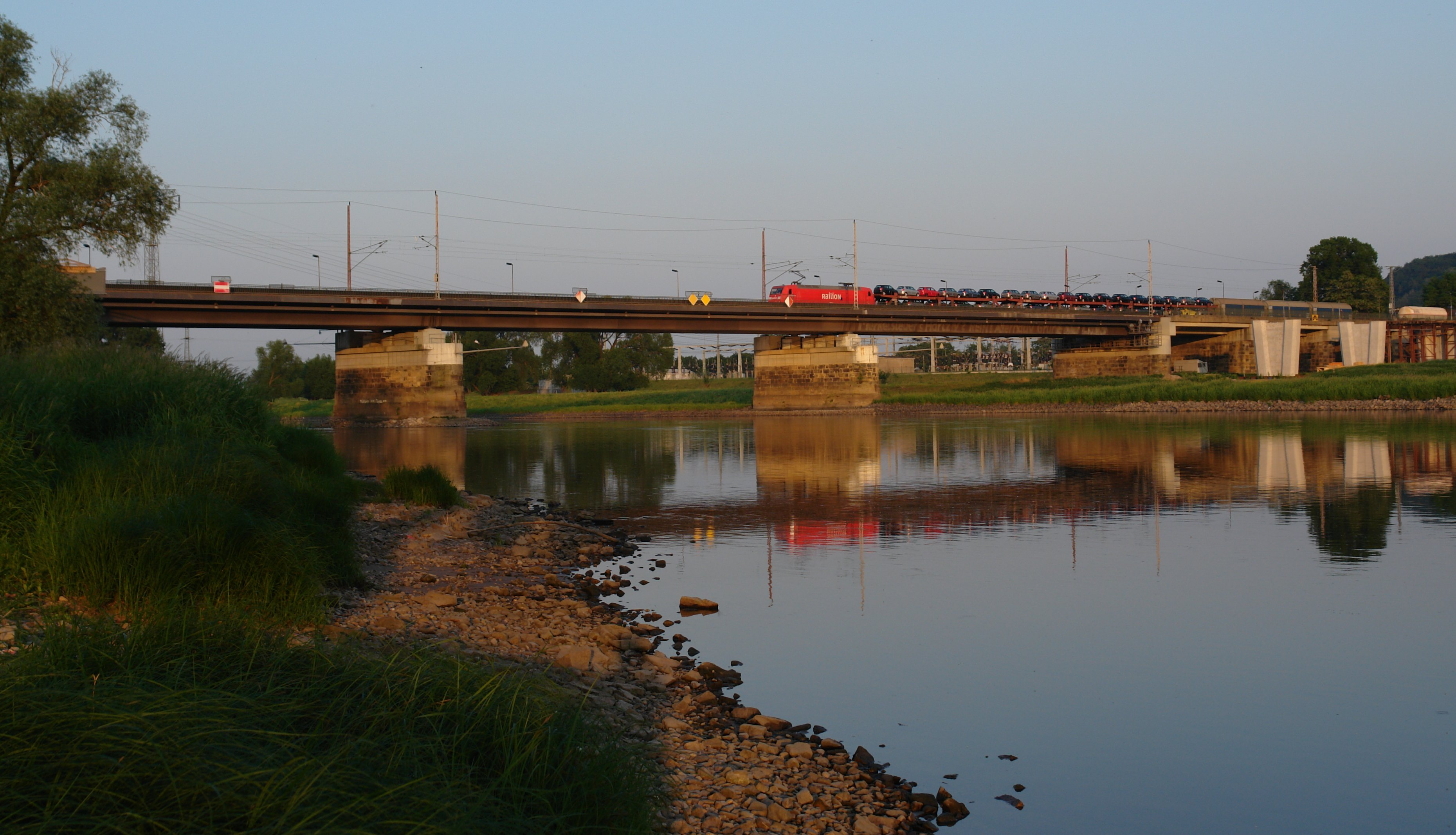 Bridge over Elbe River of the railway line Dresden–Berlin at Niederwartha, Germany